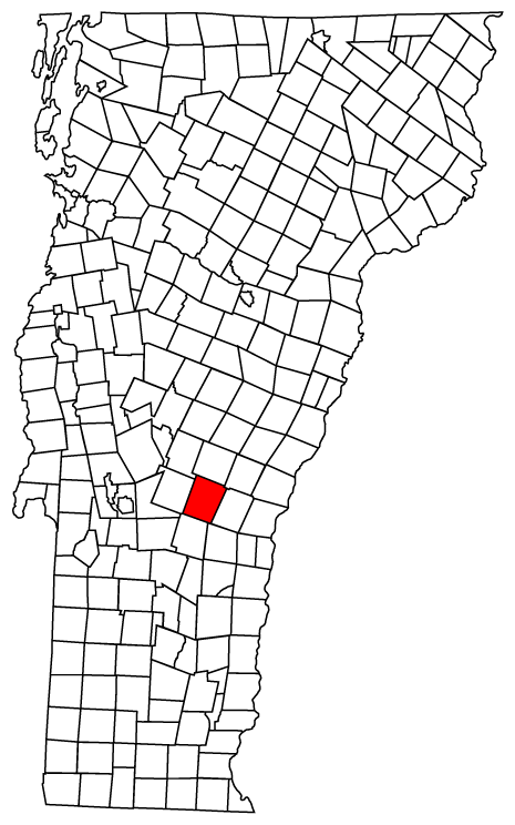 Map of Vermont towns with Bridgewater highlighted